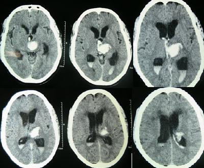 CT scan of intracerebral hemorrhage. Caption reads, "Pre operative CT scan. Representative pre-operative CT scan of a patient showing a thalamic haemorrhage with associated hydrocephalus and blood in the third and both lateral ventricles."